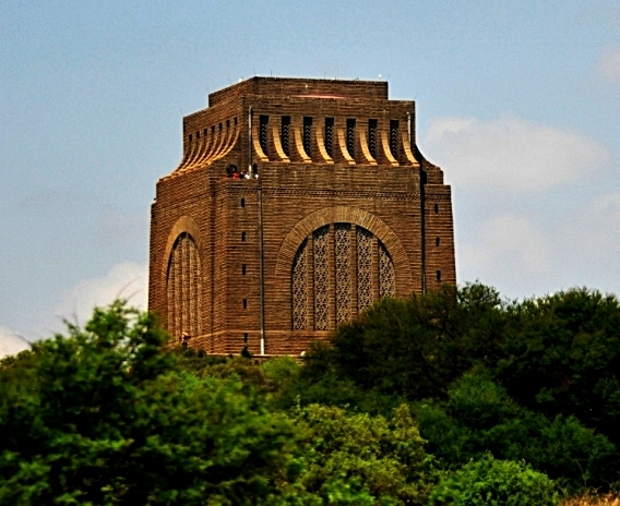 This media shows a South African Protected Site with SAHRA file reference 9-2-258-0097.